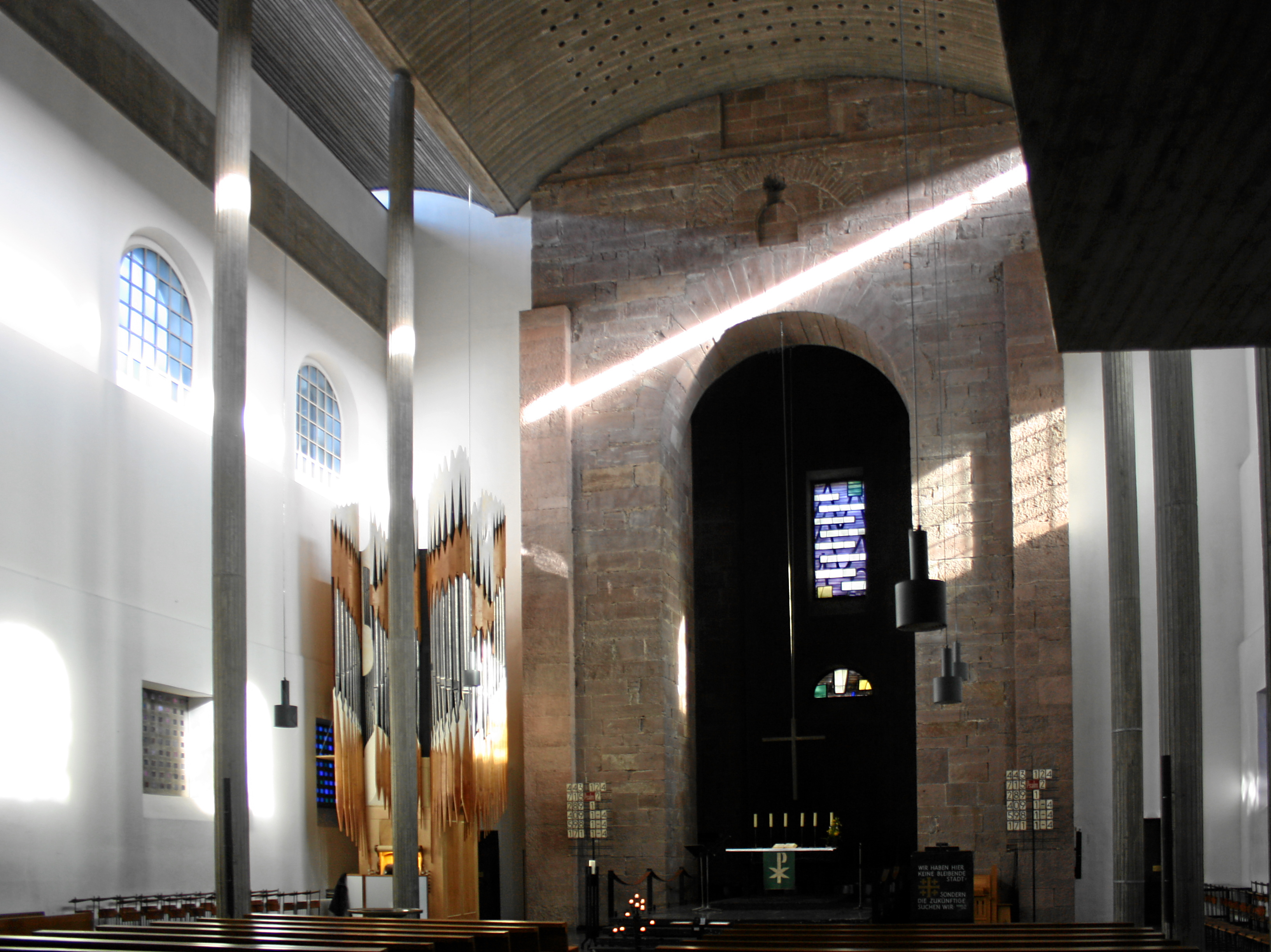 Protestant city church in Karlsruhe, Germany. Nave towards East. Interior as reconstructed by Horst Linde after World War 2 destruction, organ by Remy Mahler.